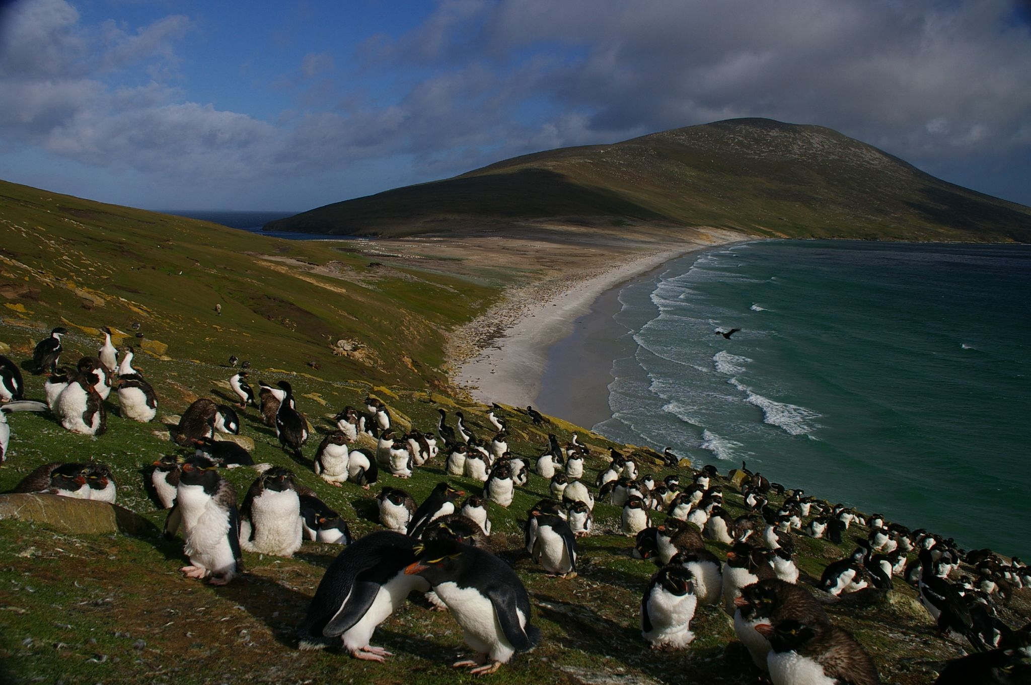 (Southern) Rockhopper Penguins (Eudyptes chrysocome), The Neck, Saunders Island, Falkland Islands